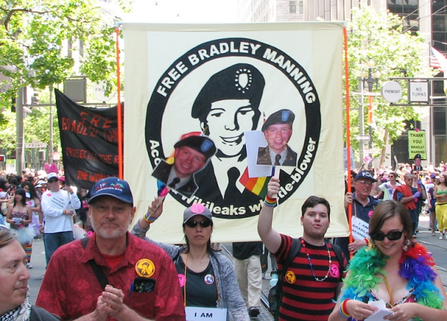 Activists March for Bradley Manning at the 2011 San Francisco Pride Parade. International human rights campaigner Peter Tatchell recently hailed Bradley a “gay hero” for his known commitment to equal human rights. Tatchell writes: Bradley Manning is openly gay. He has participated in Pride marches and campaigned against the “Don’t ask, don’t tell” restrictions on gay military personnel. In 2008, he attended a rally in New York to oppose attempts to ban same-sex marriage in California. Manning is also a humanist and a man with a conscience. When he discovered human rights violations by the US armed forces and duplicity by the US government, he was shocked and distressed. He became disillusioned with his country’s foreign and military policy; believing it was betraying the US ideals of democracy and human rights.